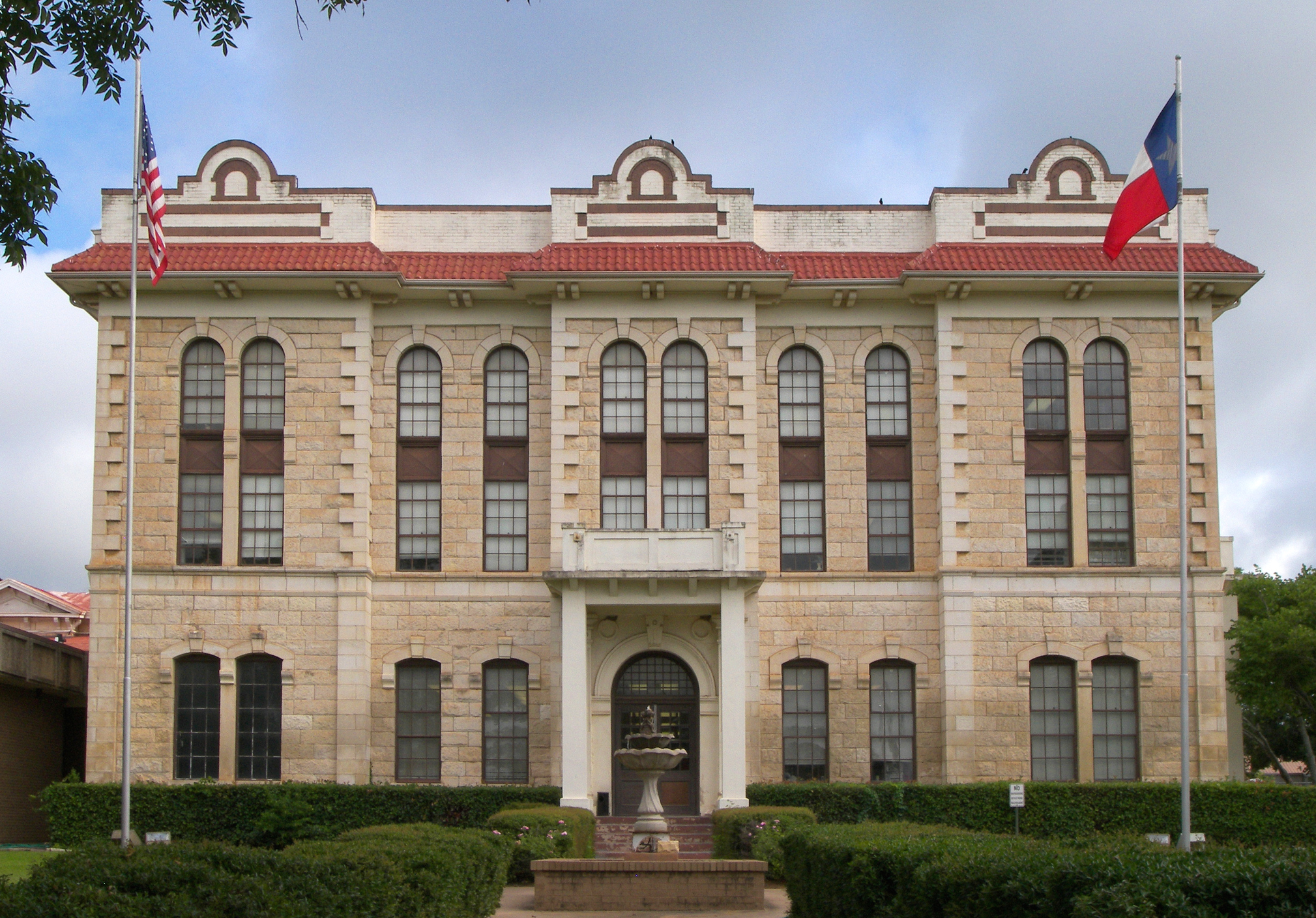 The Robertson County, Texas courthouse located in Franklin, Texas, United States. The courthouse was designated a Recorded Texas Historic Landmark in 1968 and listed on the National Register of Historic Places on December 22, 1977.